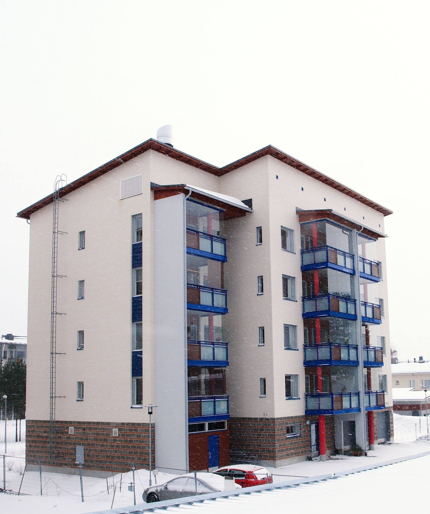 Nearly completed Flats at Sandelsinkatu street in Vuorela, Siilinjärvi, Finland. Picture 2 of 2.